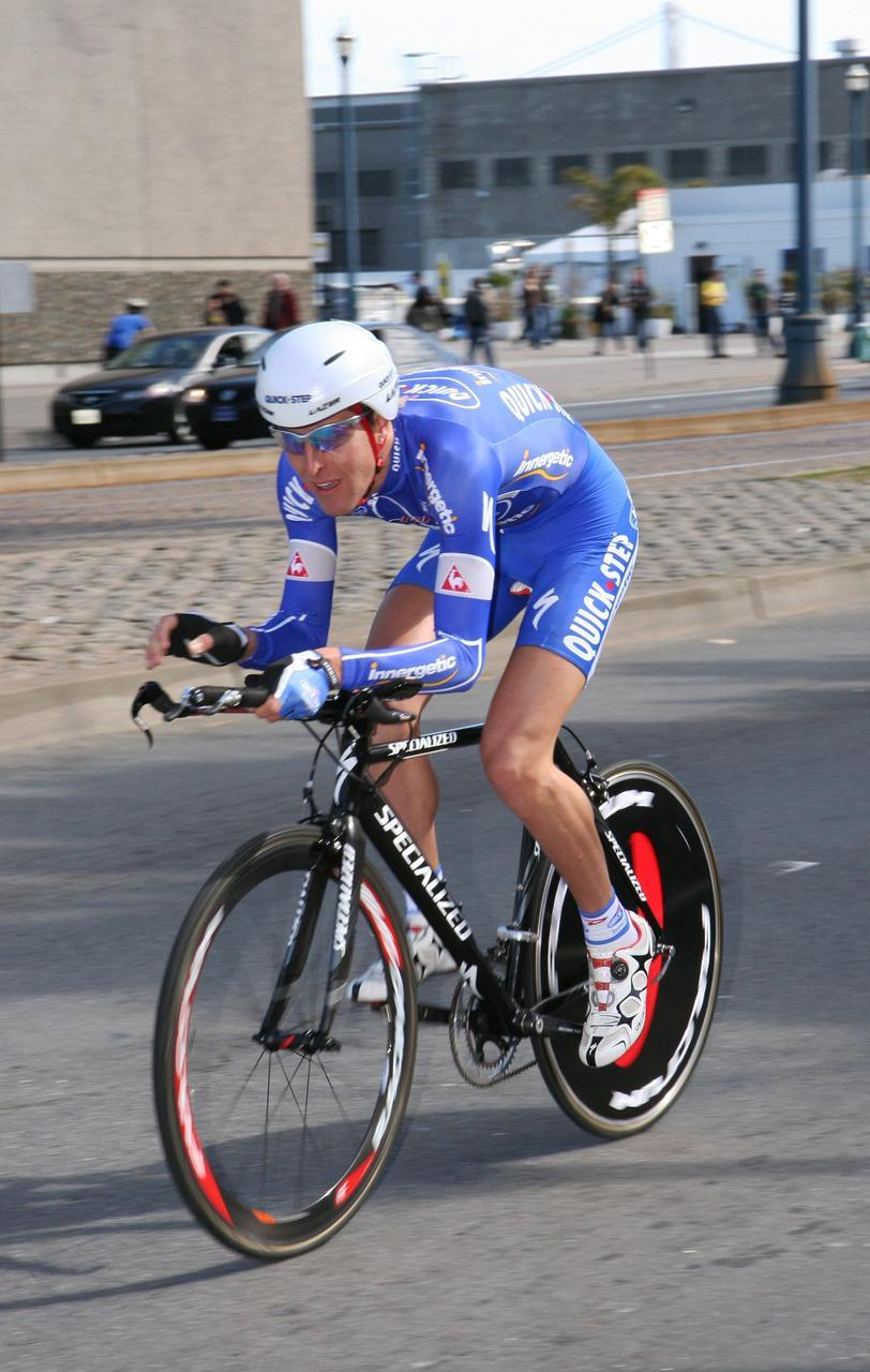 Leonardo Scarselli. From the Amgen Tour of California prologue in San Francisco, February 18, 2007